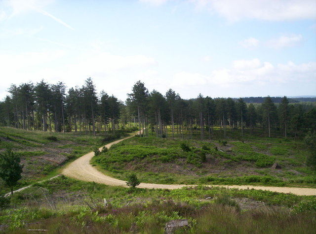 Wareham - Gore Heath Track towards Morden Road and on towards Sandford